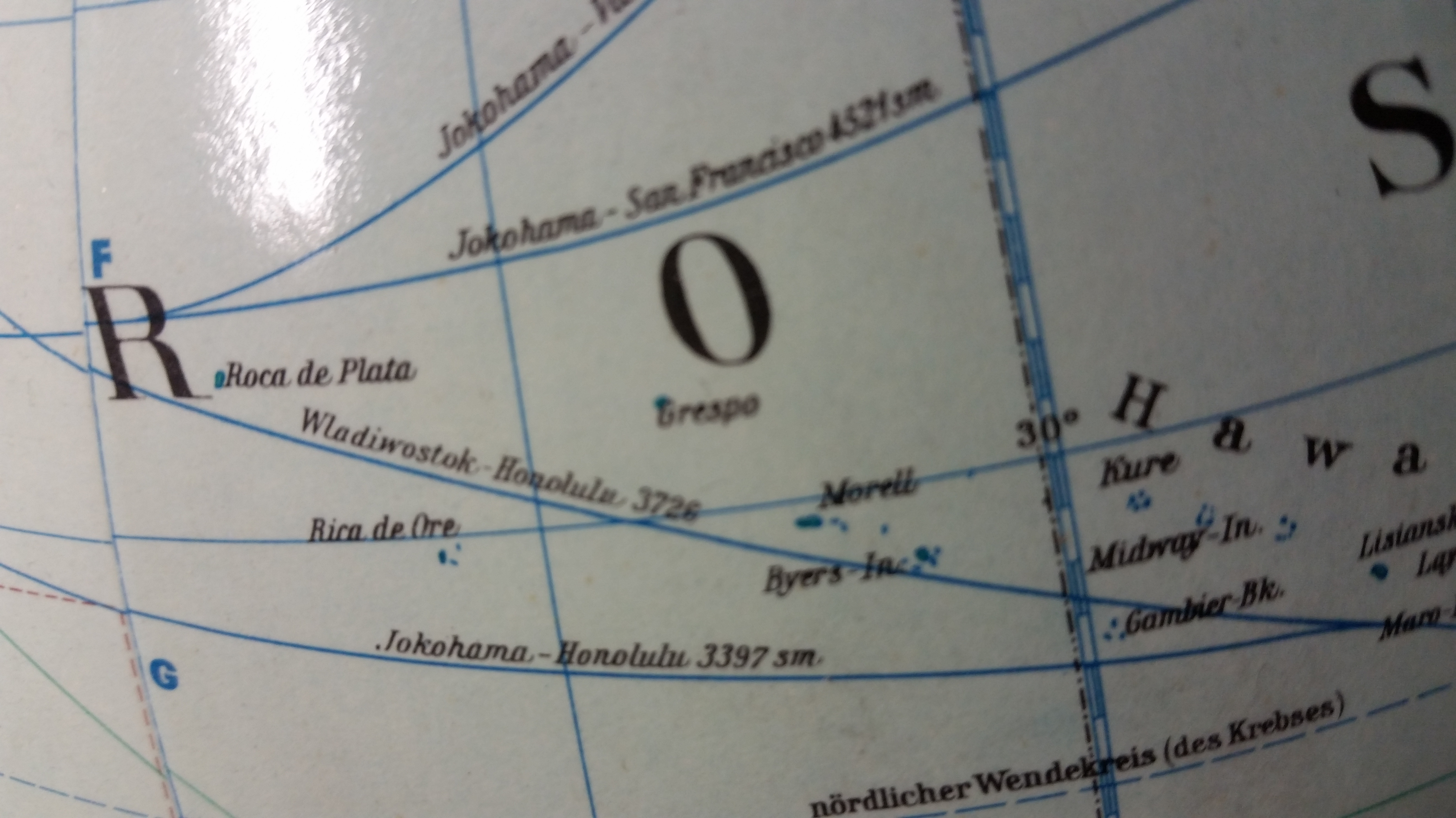 Photo showing some phantom islands on old Globe west of Hawaii